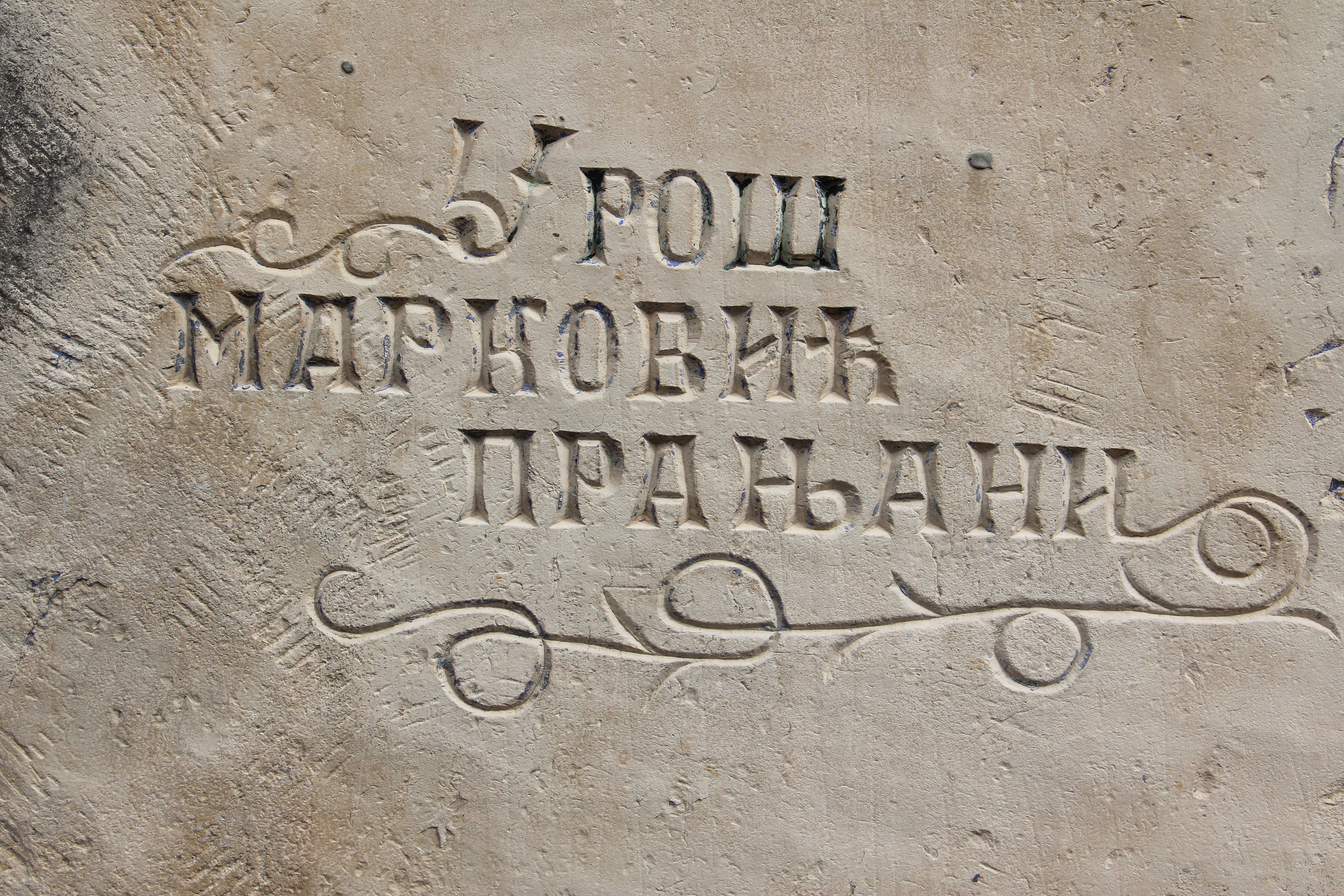 Old gravestones at the cemetery in the village of Leusici (the municipality of Gornji Milanovac), Serbia.